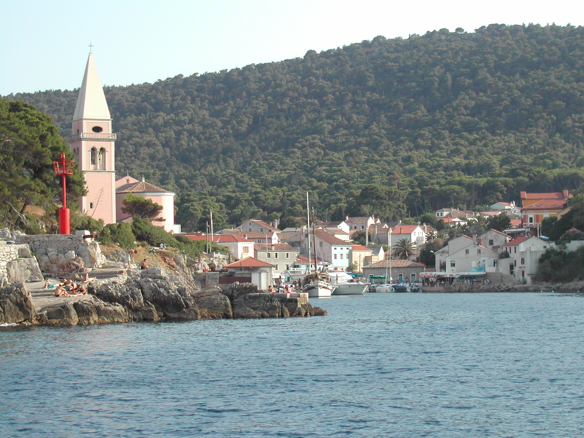 Veli Lošinj as seen from a boat that enters the port. Photographed in the summer of 2004 from user neoneo13 for Wikipedia.